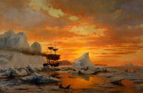 Painting by William Bradford 1875